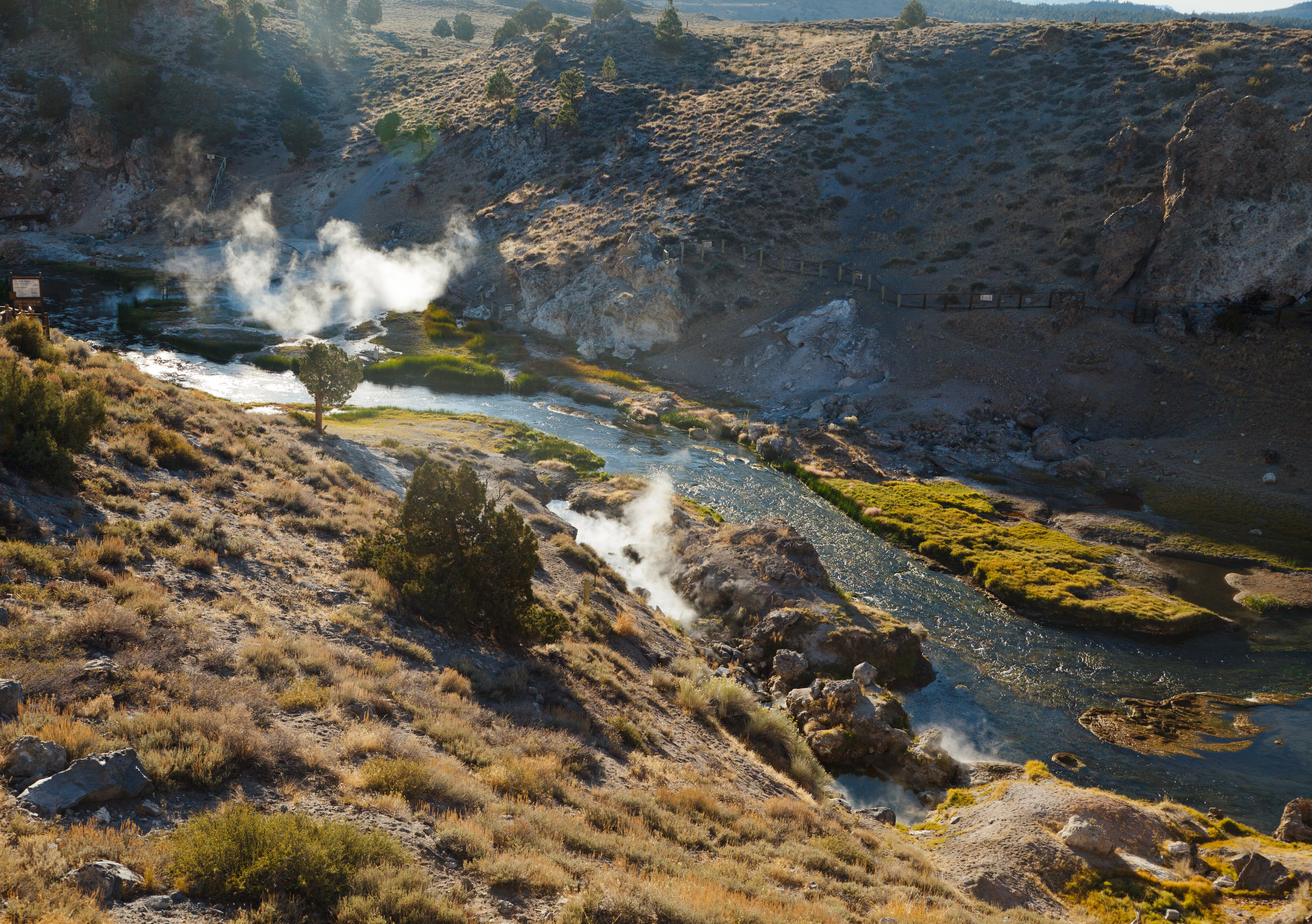 Steam from geothermal springs rise out of Hot Creek, near Mammoth Lakes, California